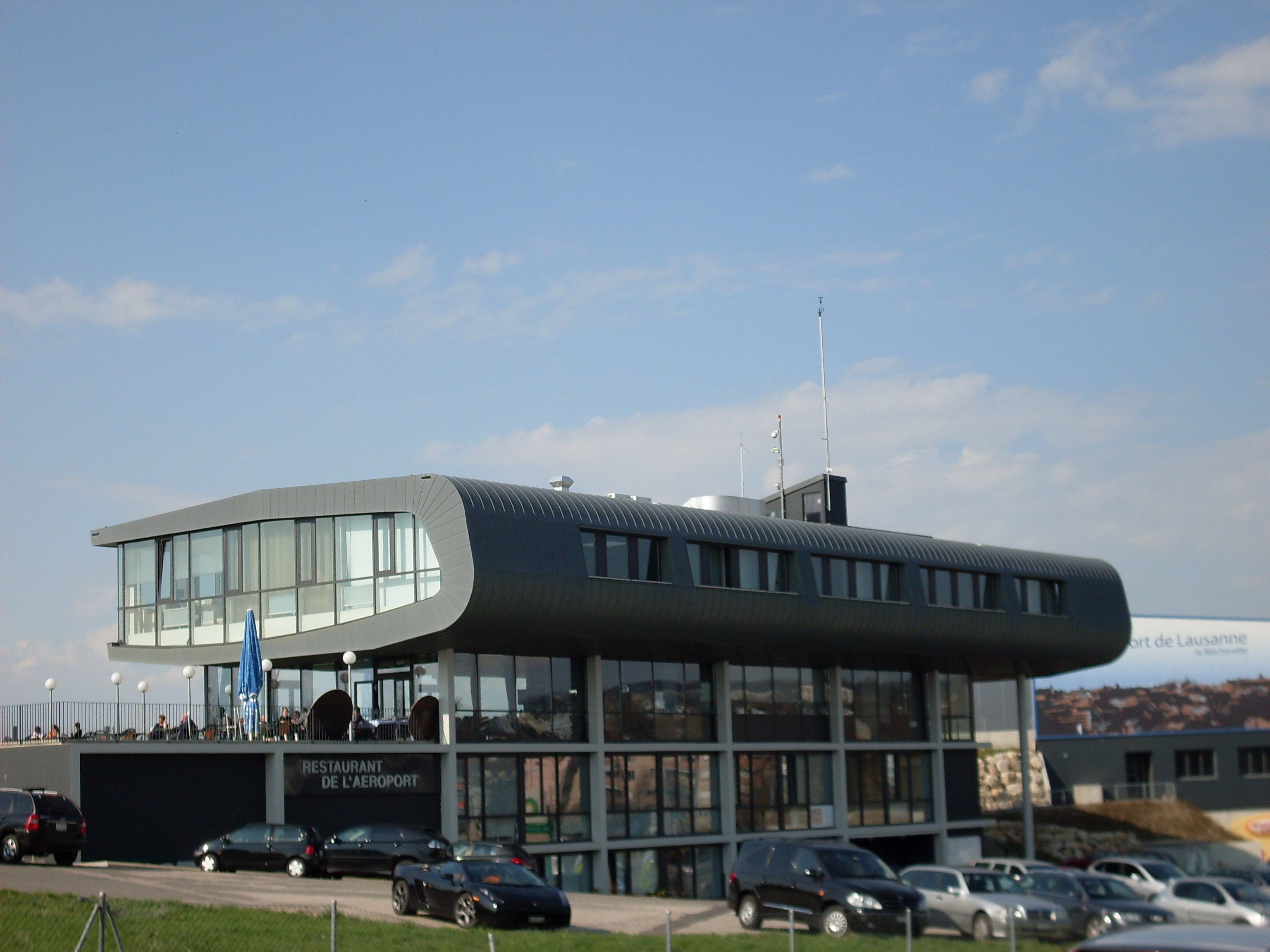 Main Building of Lausanne Airport, Vaud, Swiss